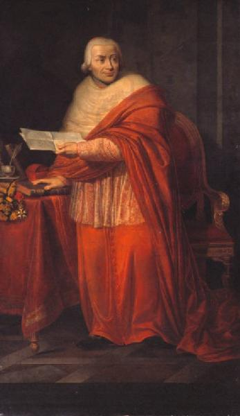 Giovanni Battista Caprara (1733-1810), Cardinal, Legate to France, Archbishop of Milan